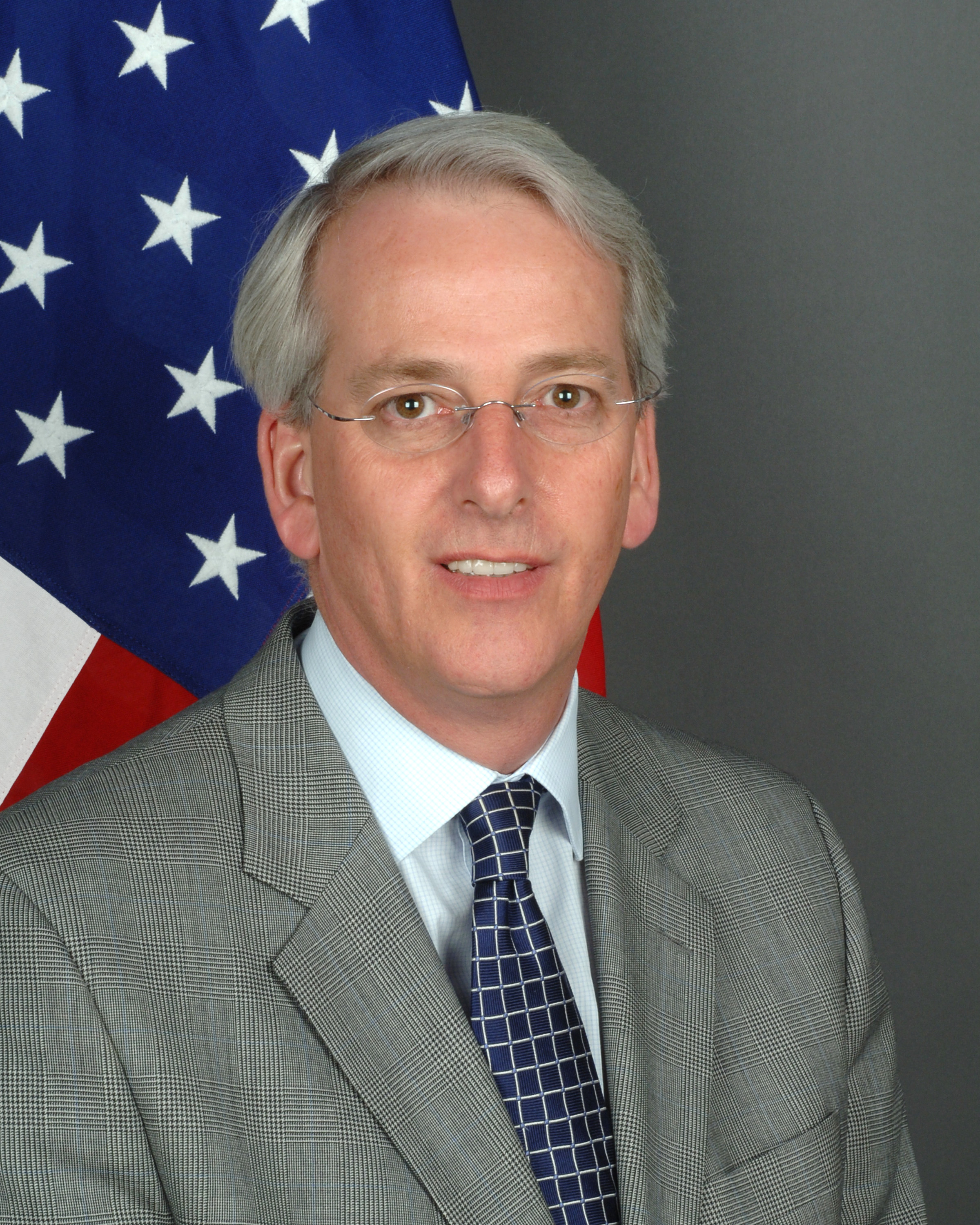 Photo of Amb. Daalder